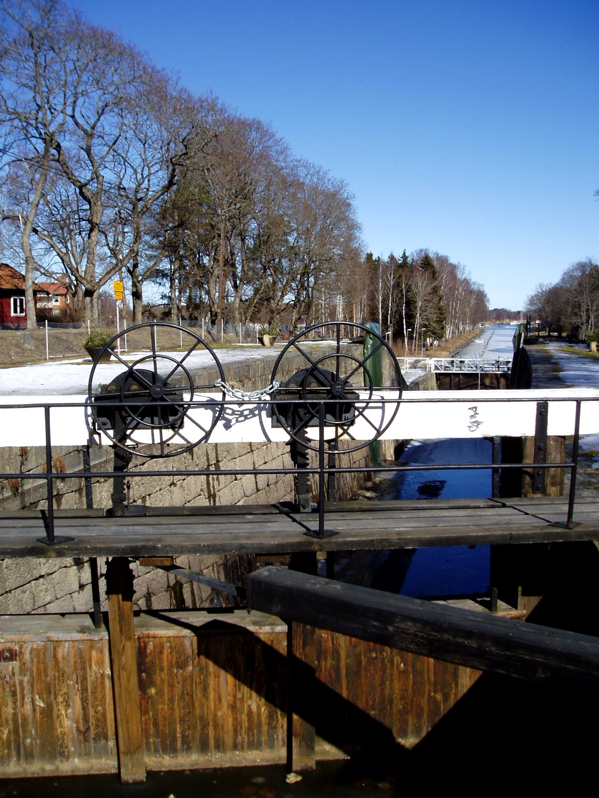 Torshälla lock, Sweden